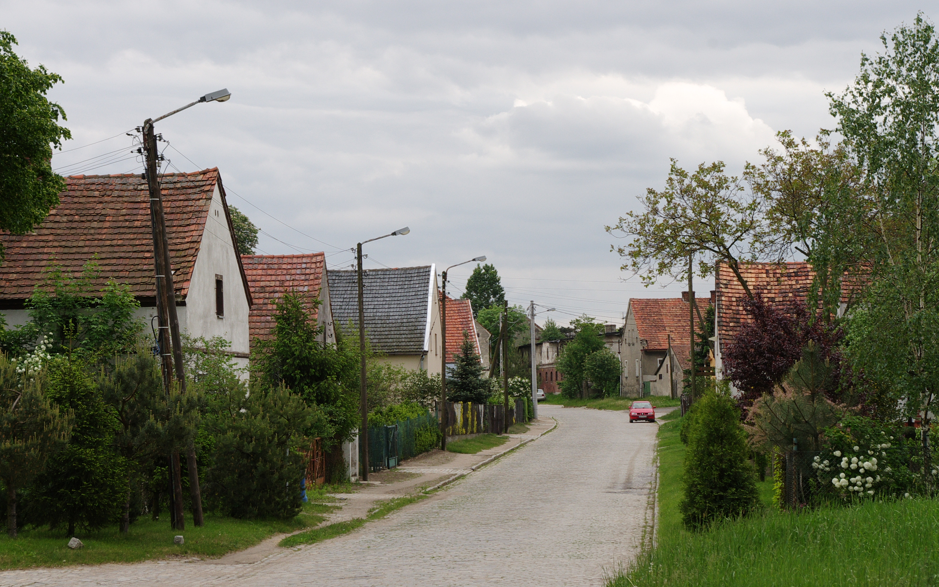 Wędkarzy Street in Rędzin, a district of Wrocław.